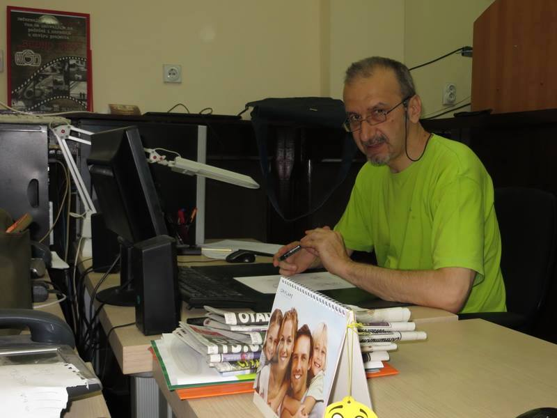 Saša Dimitrijević, Born 1964, Niš, Serbia. Cartoonist